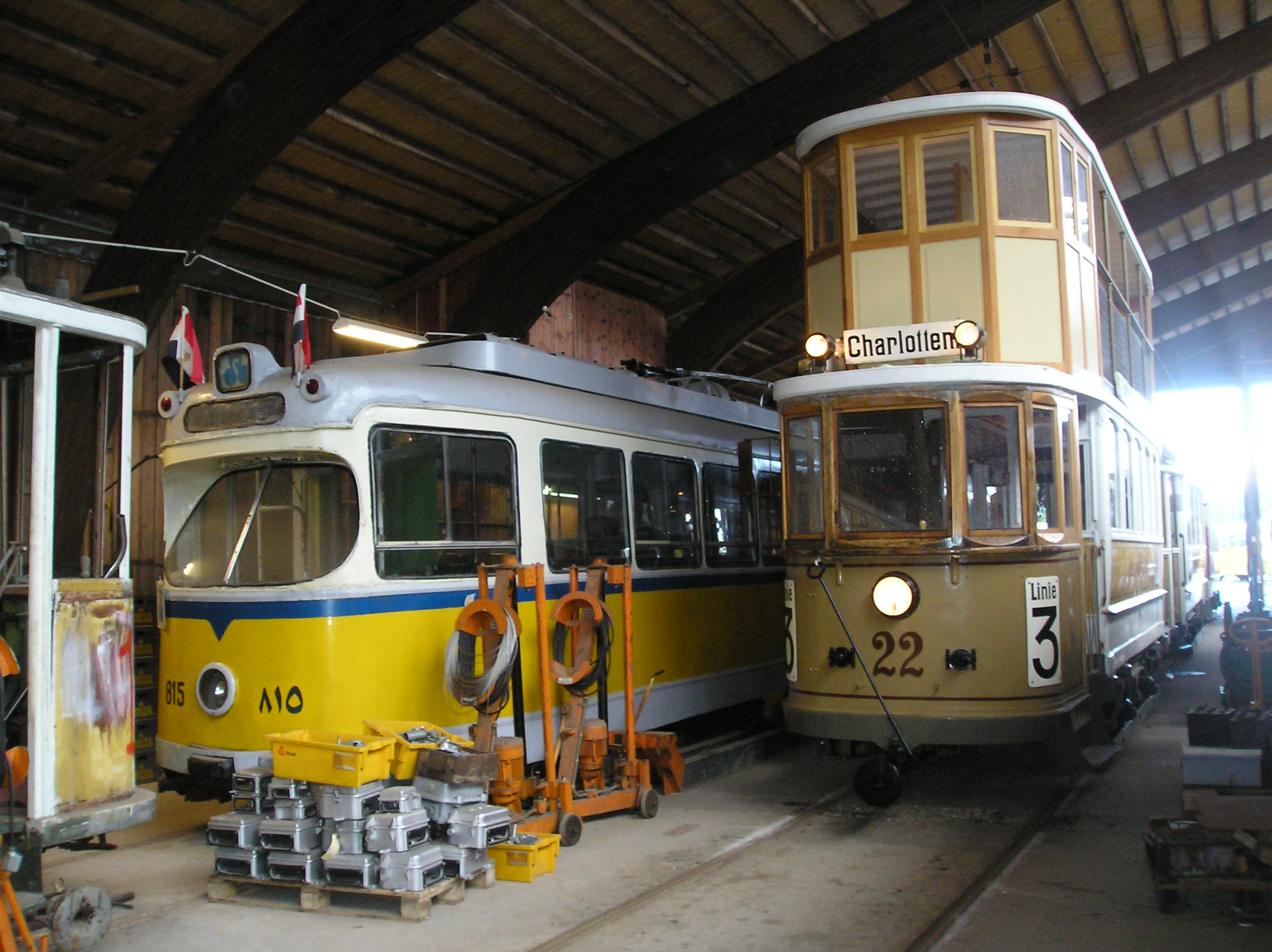 Old trams APTA 815 (former KS 815) from Alexandria and KS 22 from Copenhagen on Sporvejsmuseet Skjoldenæsholm in Denmark.